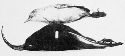 Laysan Millerbird (Acrocephalus familiaris familiaris) next to Black Mamo (Drepanis fuinerea). From 'A key to the birds of the Hawaiian group. By William Alanson Bryan. Honolulu, H.I., Bishop Museum Press, 1901'.